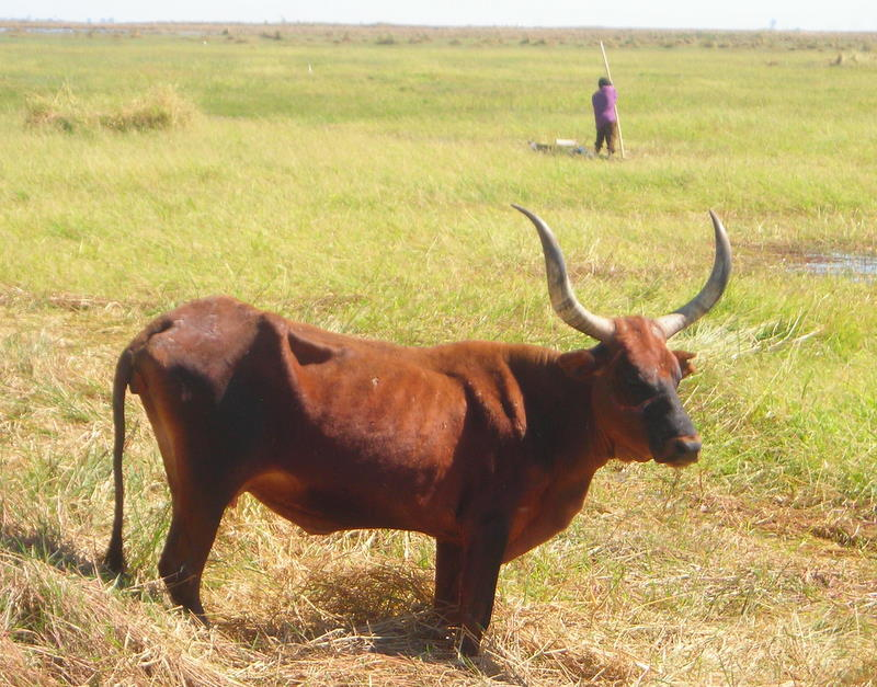 Lozi cows and bulls from the eastern edge of the Zambezi Floodplain between Mongu and Senanga.